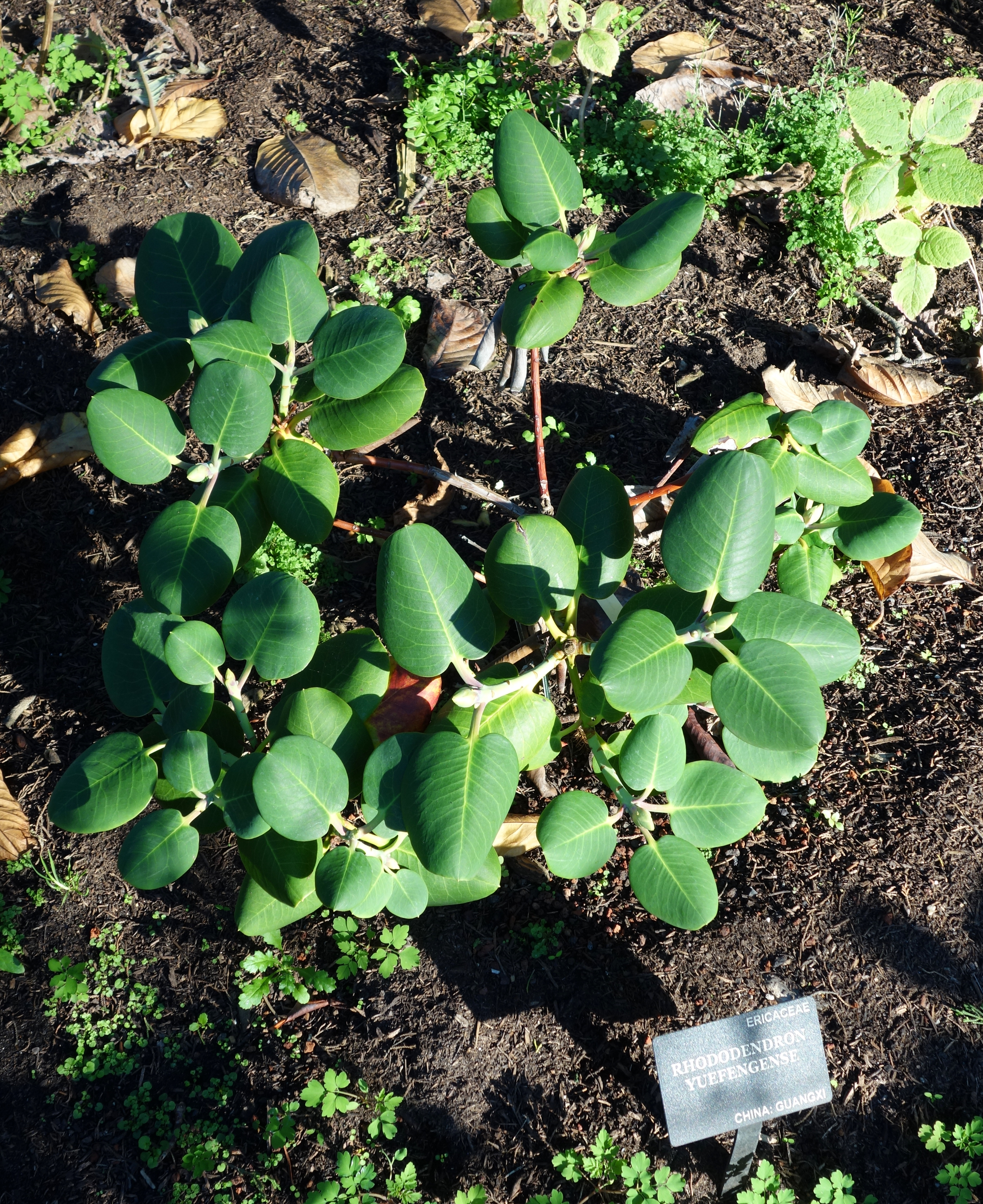 Botanical specimen in the San Francisco Botanical Garden, San Francisco, California, USA.